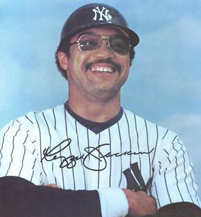 Professional baseball player Reggie Jackson during the 1981 season as a member of the New York Yankees.